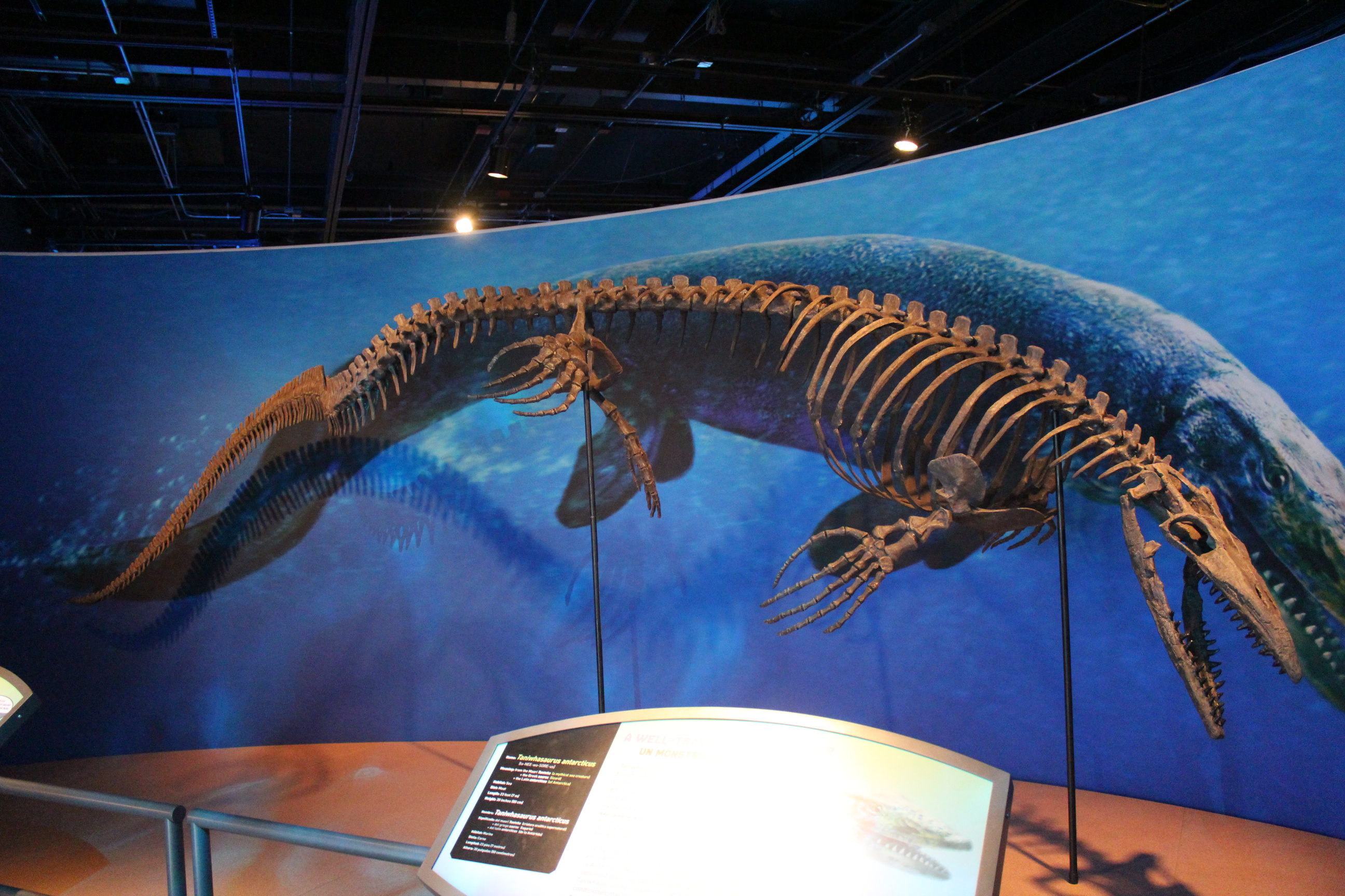 A Taniwhasaurus antarcticus skeletal mount on display at the Field Museum of Natural History.